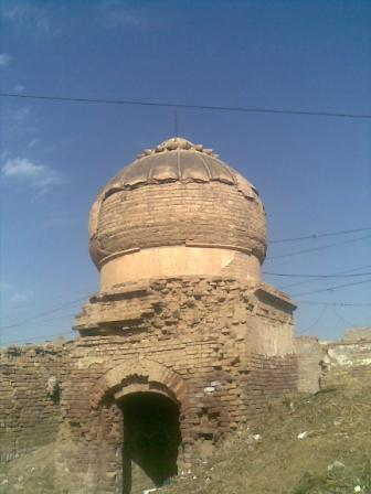 It is the picture of Jane Temple Located in dunga bunga town of district Bahawal Nagar Standing in misery